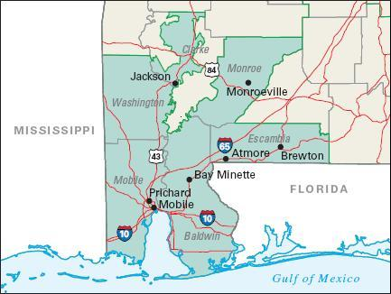 Map of Alabama's First Congressional District